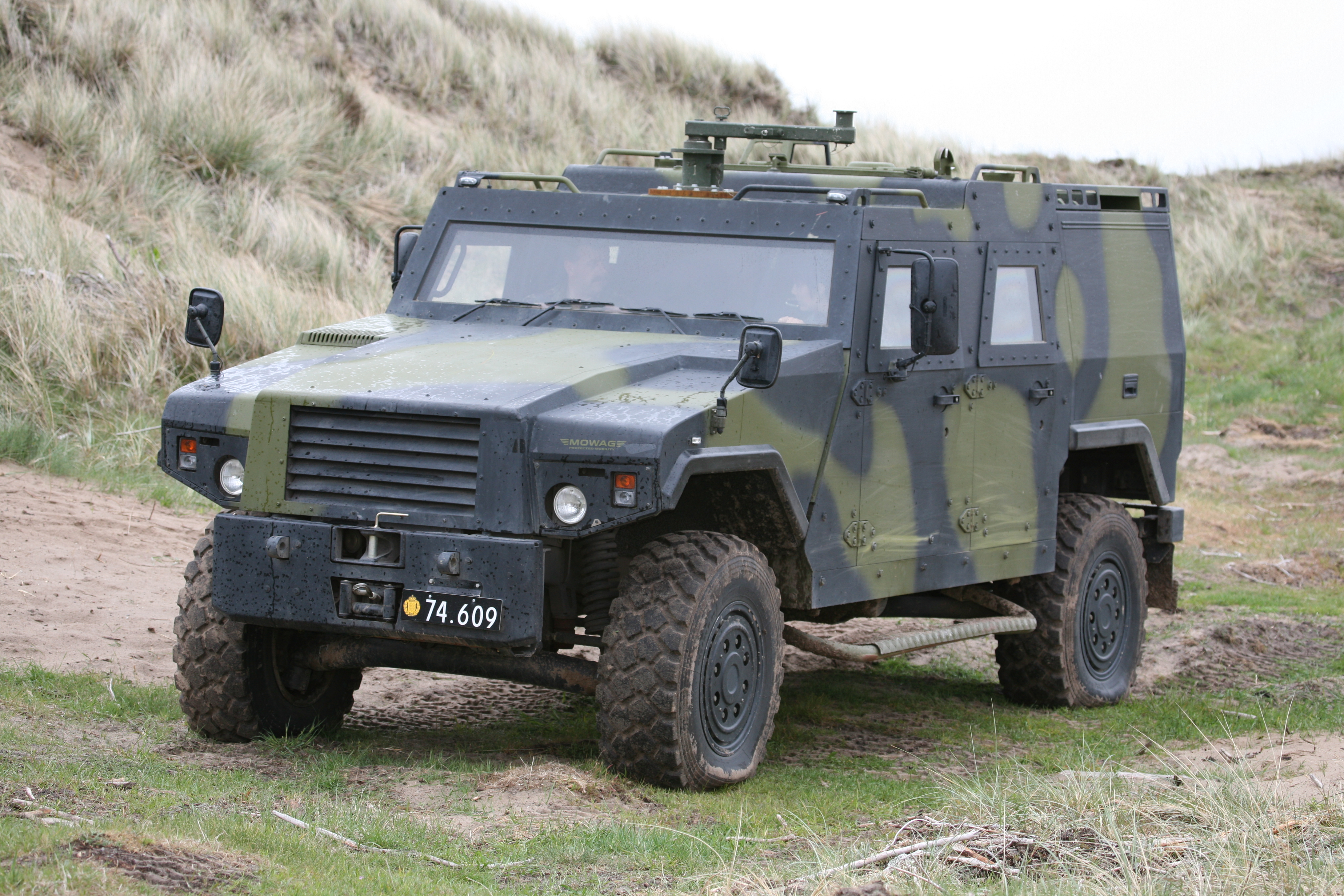 Danish MOWAG Eagle